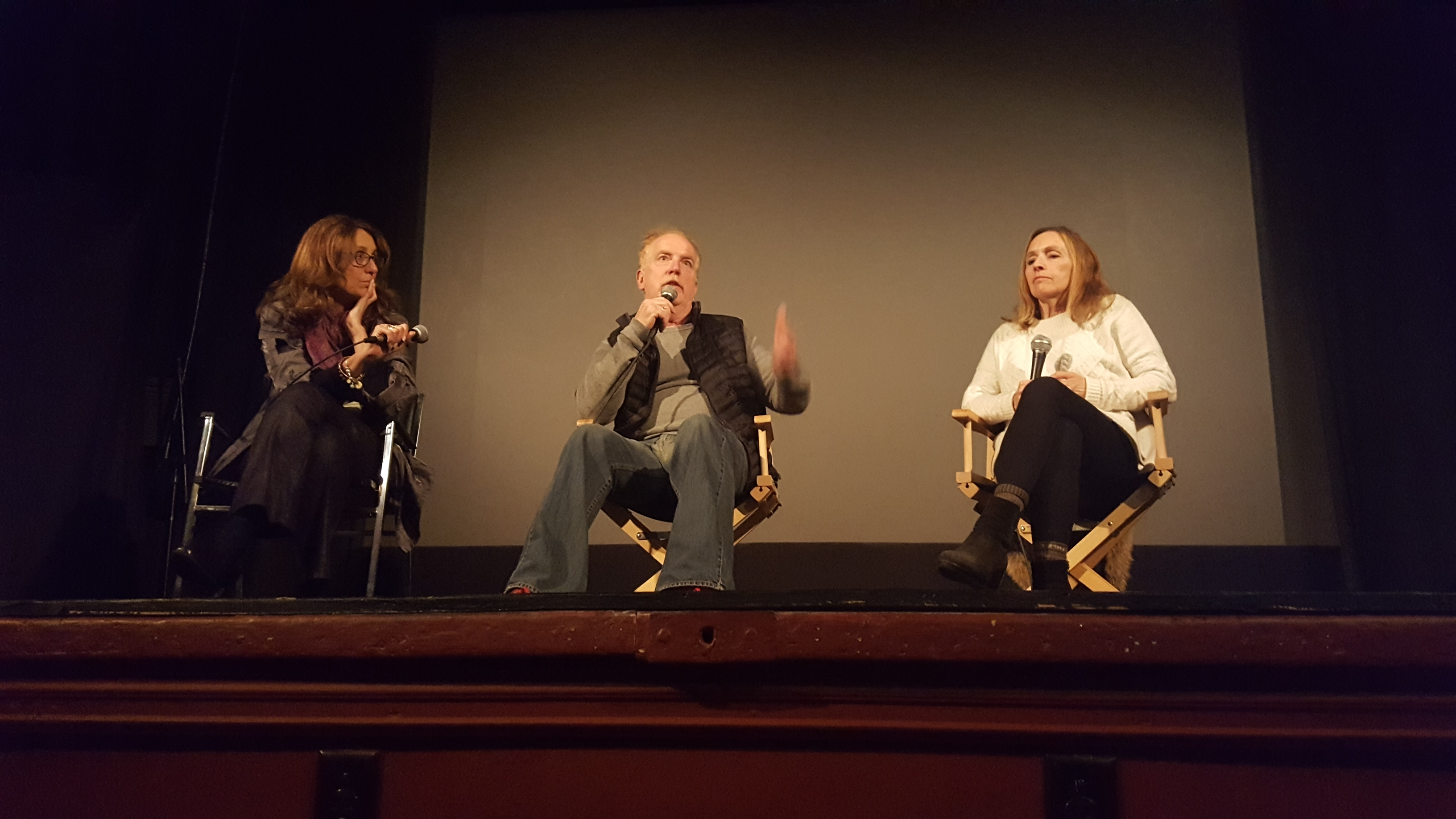 Image of the panel discussion following the showing of "High on Crack Street: Lost Lives in Lowell" at the Brattle Theatre in Harvard Square on Monday 2 May 2016. The discussion involved Deb Becker of WBUR with 2 film makers Rich Farrell and MaryAnn DeLeo.